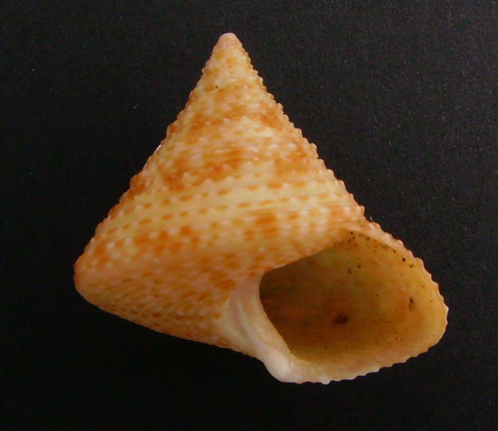 Calliostoma pellucidum pellucidum from New Zealand. This work has been released into the public domain by its author, Graham Bould. This applies worldwide.In some countries this may not be legally possible; if so:Graham Bould grants anyone the right to use this work for any purpose, without any conditions, unless such conditions are required by law. .